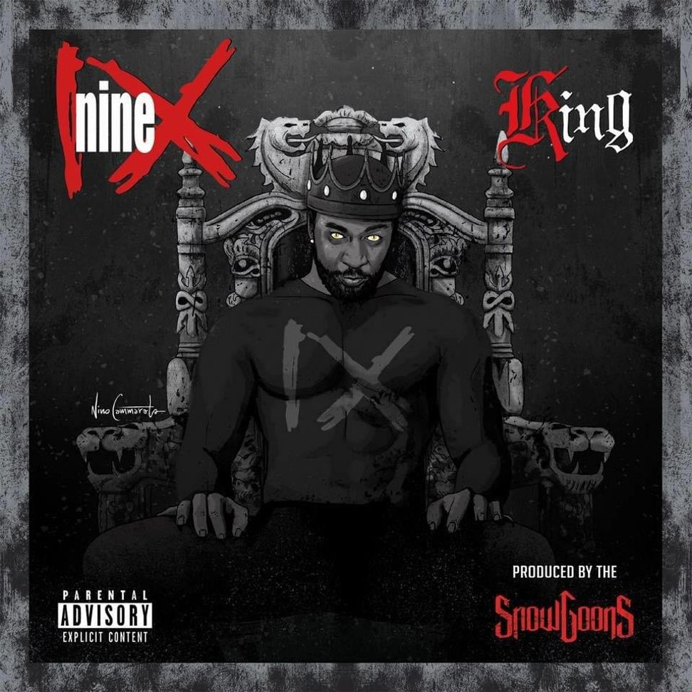 Cover des Albums "King"